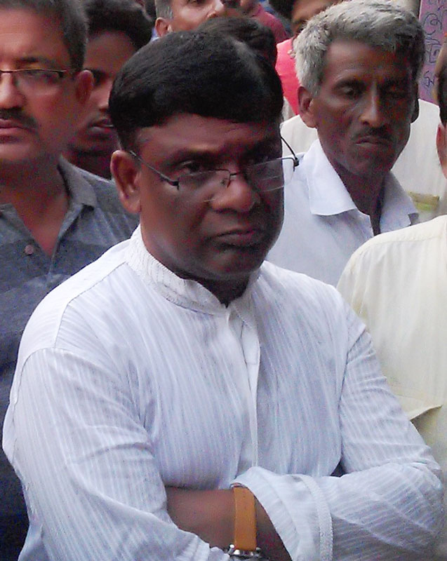 Golam Mostofa Biswas is one of the member of parliament in bangladesh sangsad. He has been selected as MP from Chapainawabgonj-2.